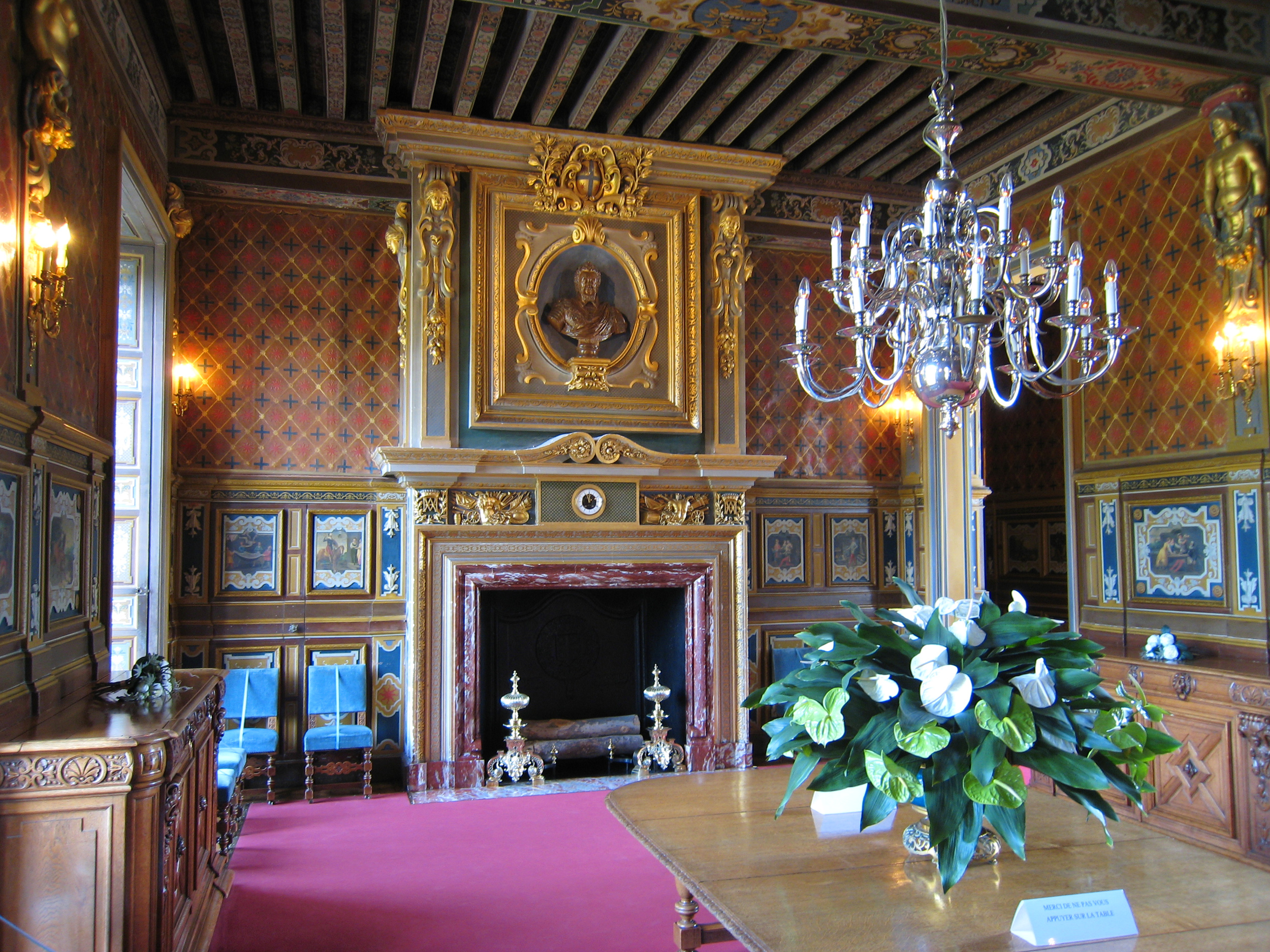 Fireplace and embossed leather wall covering restorend in 2012[1], dining hall, Château de Cheverny, Loir-et-Cher, France